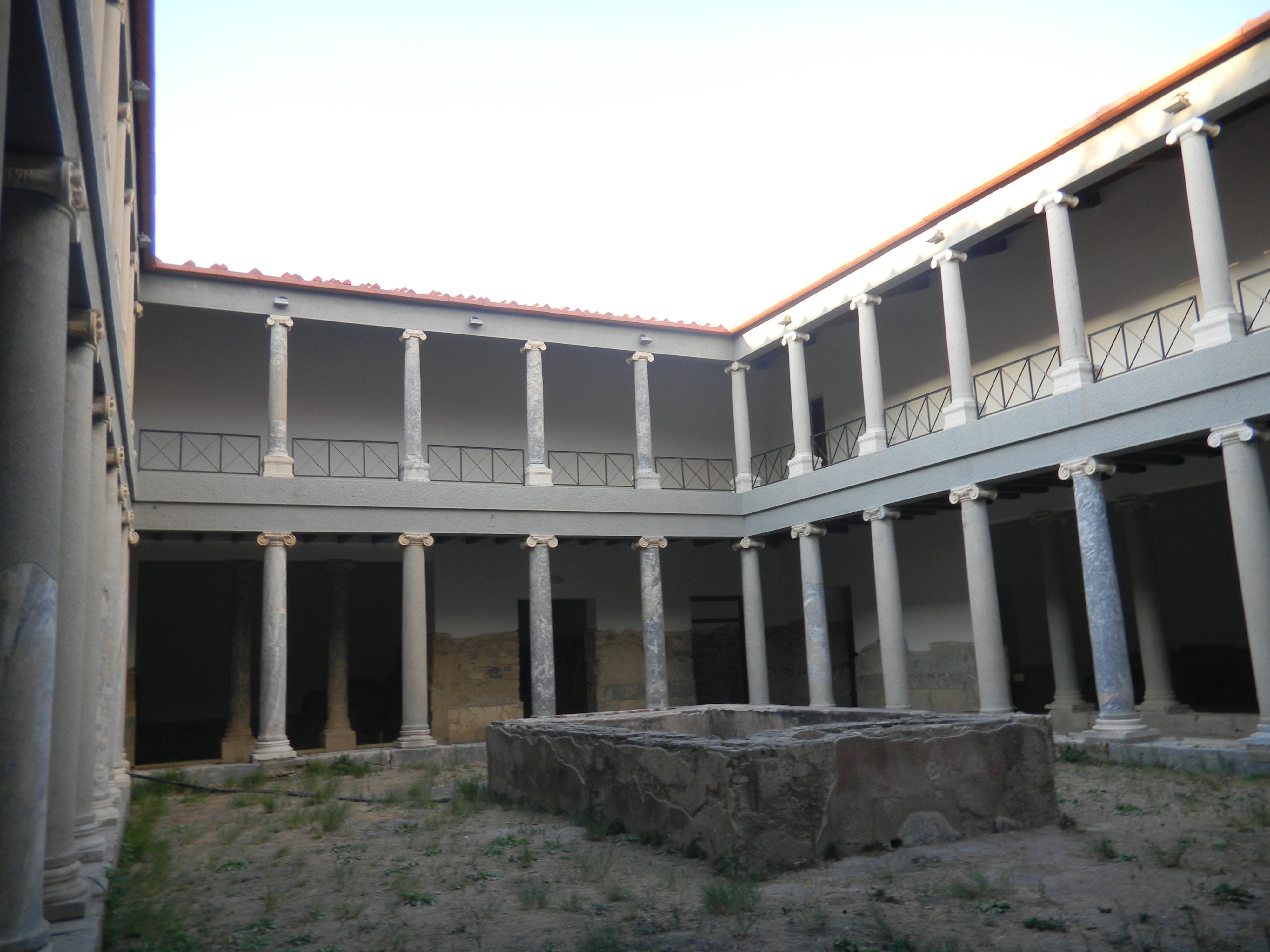 The restored Roman villa "Casa Romana" in Kos Town.